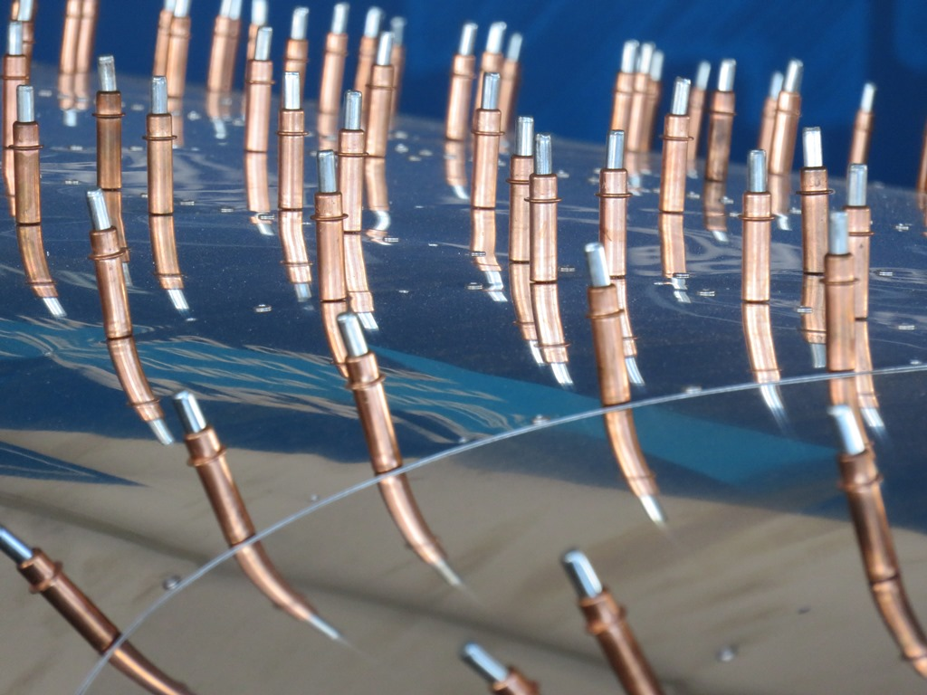 Cleko Fasteners on RV-12 Wing